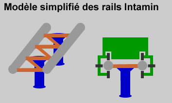 Simplified and light version of Intamin AG track. Drawing created by myself, Sam-Pig.